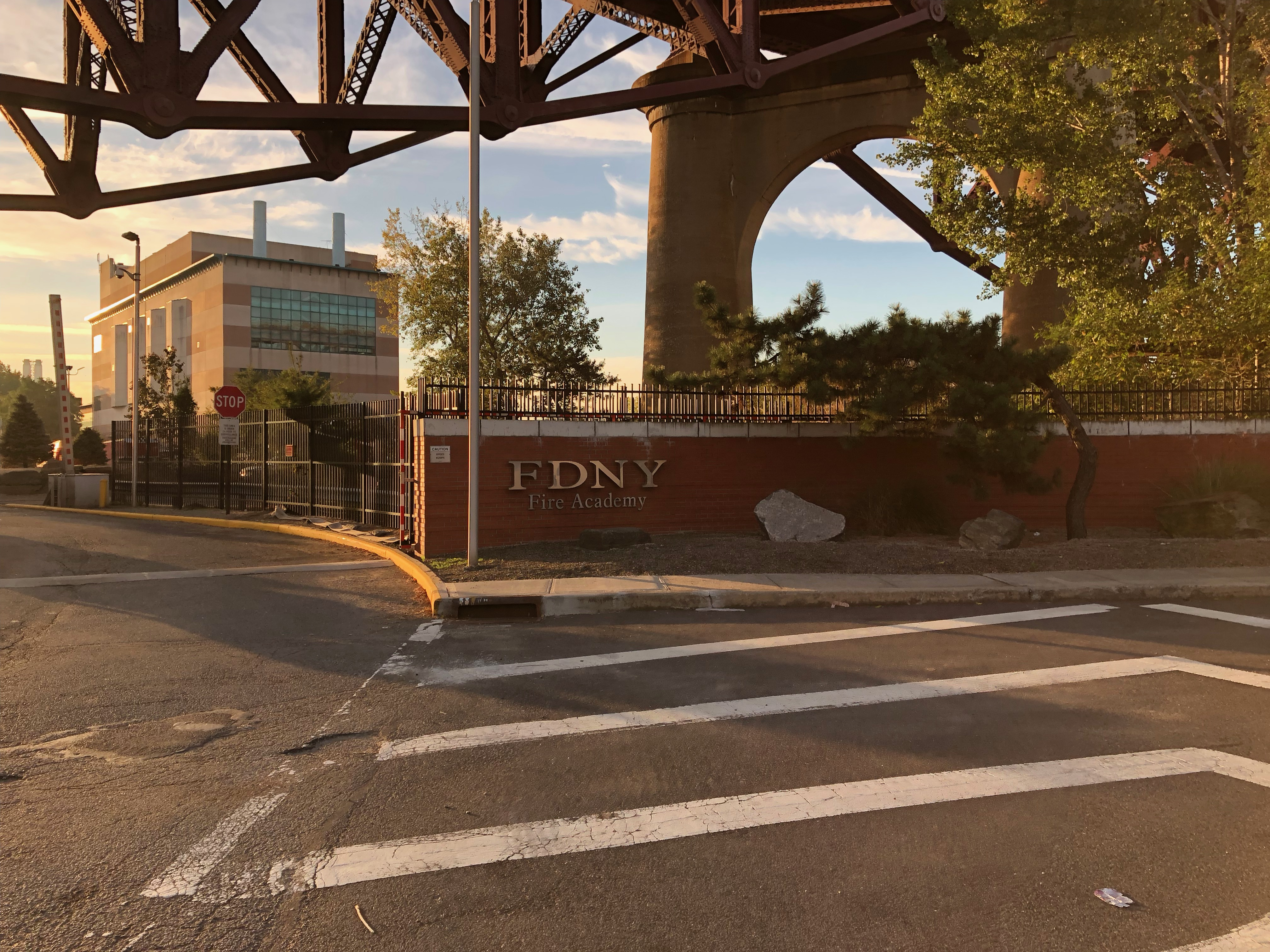 FDNY NY Fire Department Academy entrance on Randall's Island, New York City